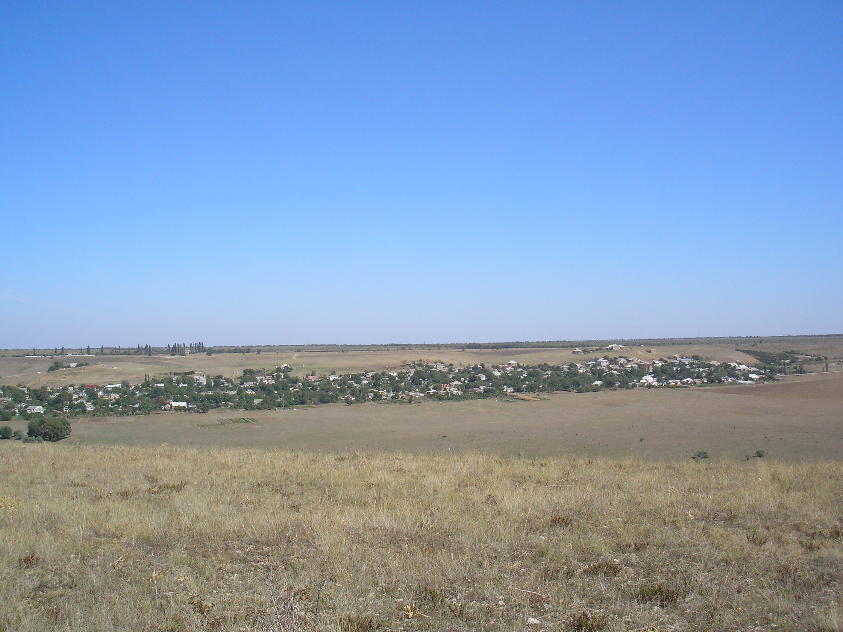 Village Pozharskoe, Simferopol district, Crimea